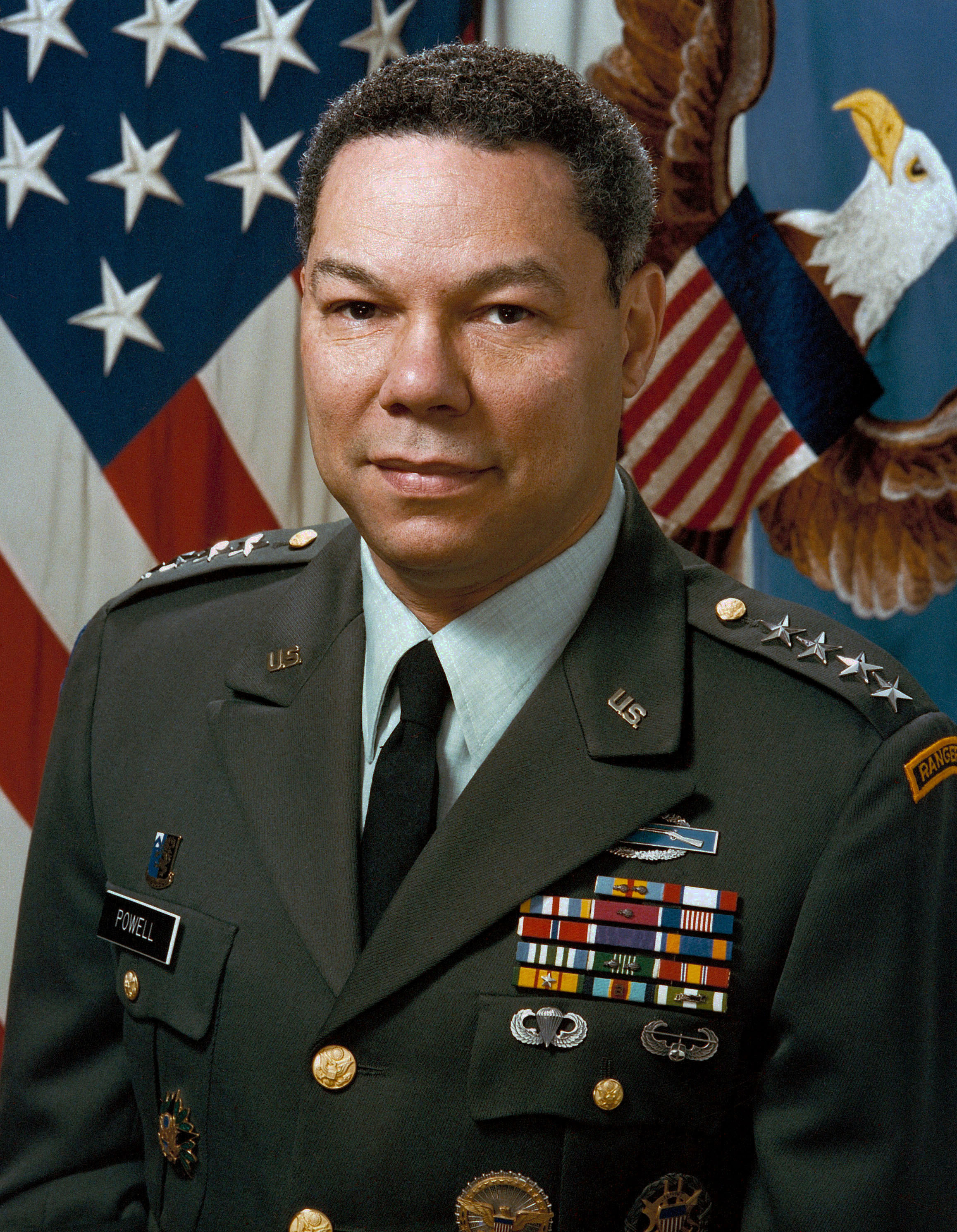 United States Army General Colin Powell, Chairman of the Joint Chiefs of Staff.